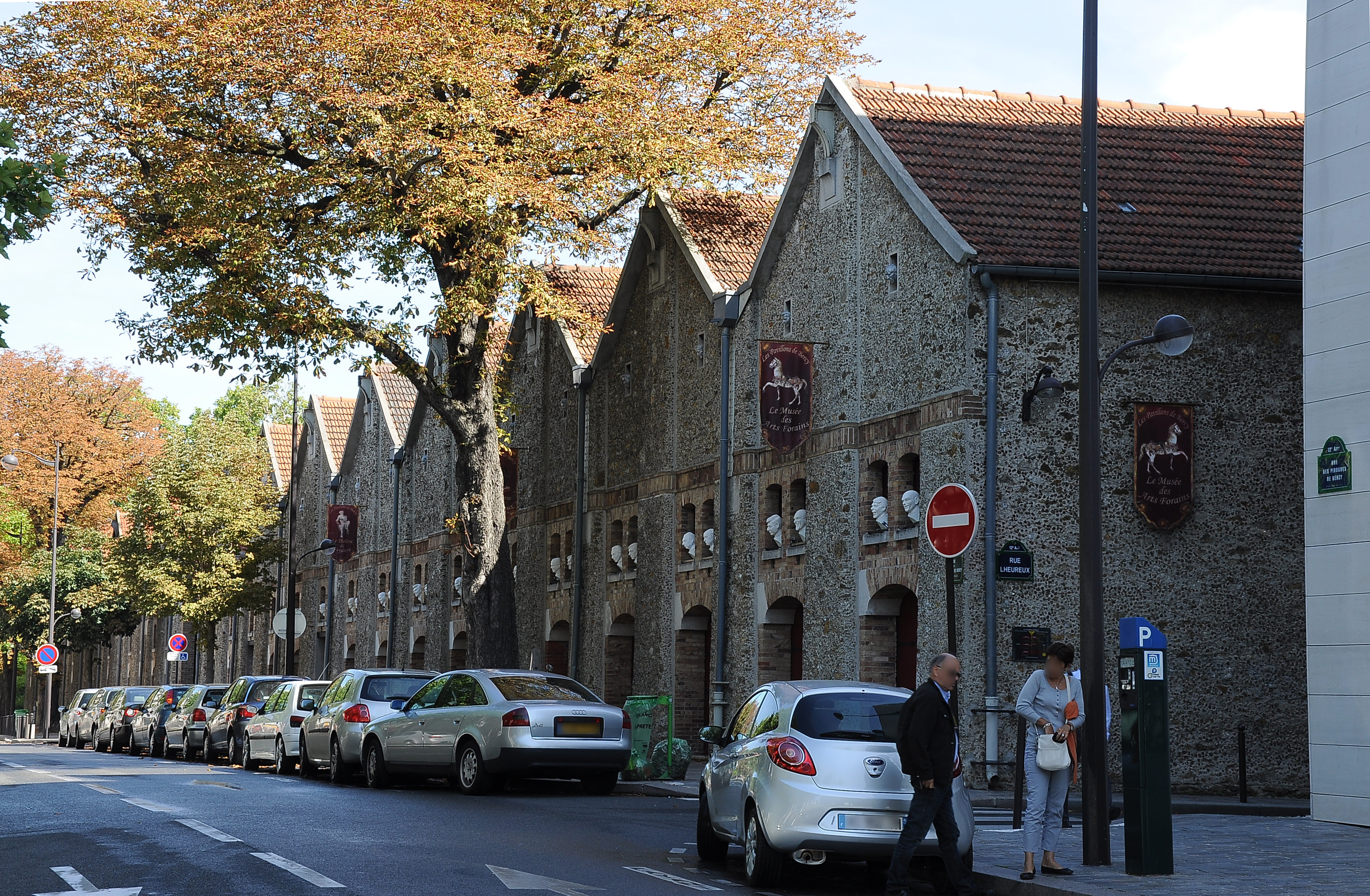 The Museum of the fairground Arts in Paris, 12th arrondissement, France.